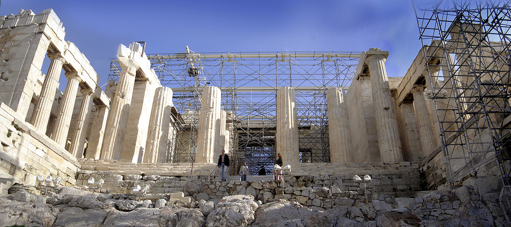 Propylaea, Acropolis, Athens.